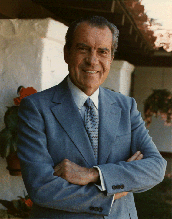 Edited RNIXON.gif to PNG.